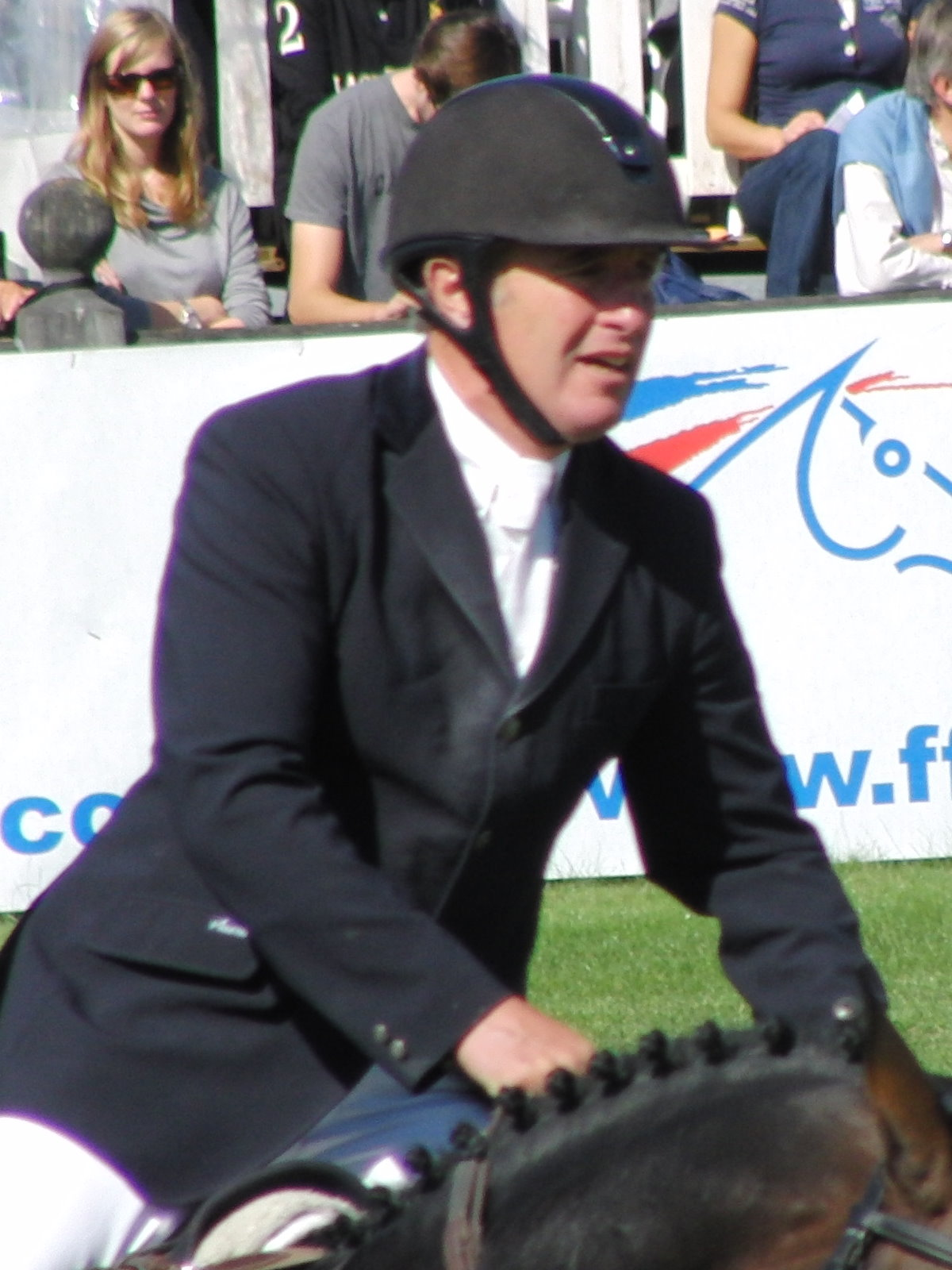 Roger-Yves Bost Championnats de France de saut d'obstacles "Master Pro" 2010 à Fontainebleau, France